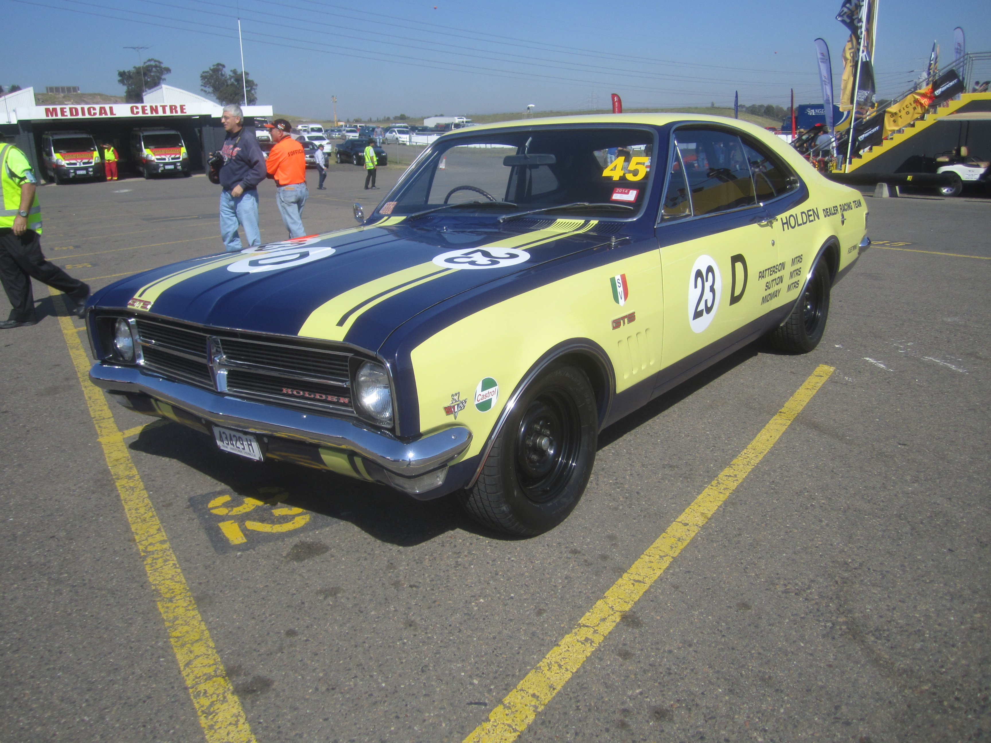 1968 was a big year for Holden, the all new 2 door coupe, the Monaro was introduced. The Monaro became the basis for a car that was very competitive on the race track The newly formed Holden Dealer Racing Team would run three Monaros at 1968 Hardie Ferodo 500 at Bathurst, which were separately financed by three different Holden dealers, Patterson Motors (Victoria), Midway Motors (Queensland) and Sutton Motors (NSW), (with each dealer named on all three cars) But a privately entered GTS 327 won the race, driven by Bruce McPhee and Barry Mulholland beating the Holden Dealer Team cars. HDT car 24D driven by Jim Palmer and Phil West was 2nd, 25D driven by George Reynolds and Brian Muir came in 5th, and this car 23D driven by Paul Hawkins and Bill Brown was disqualified